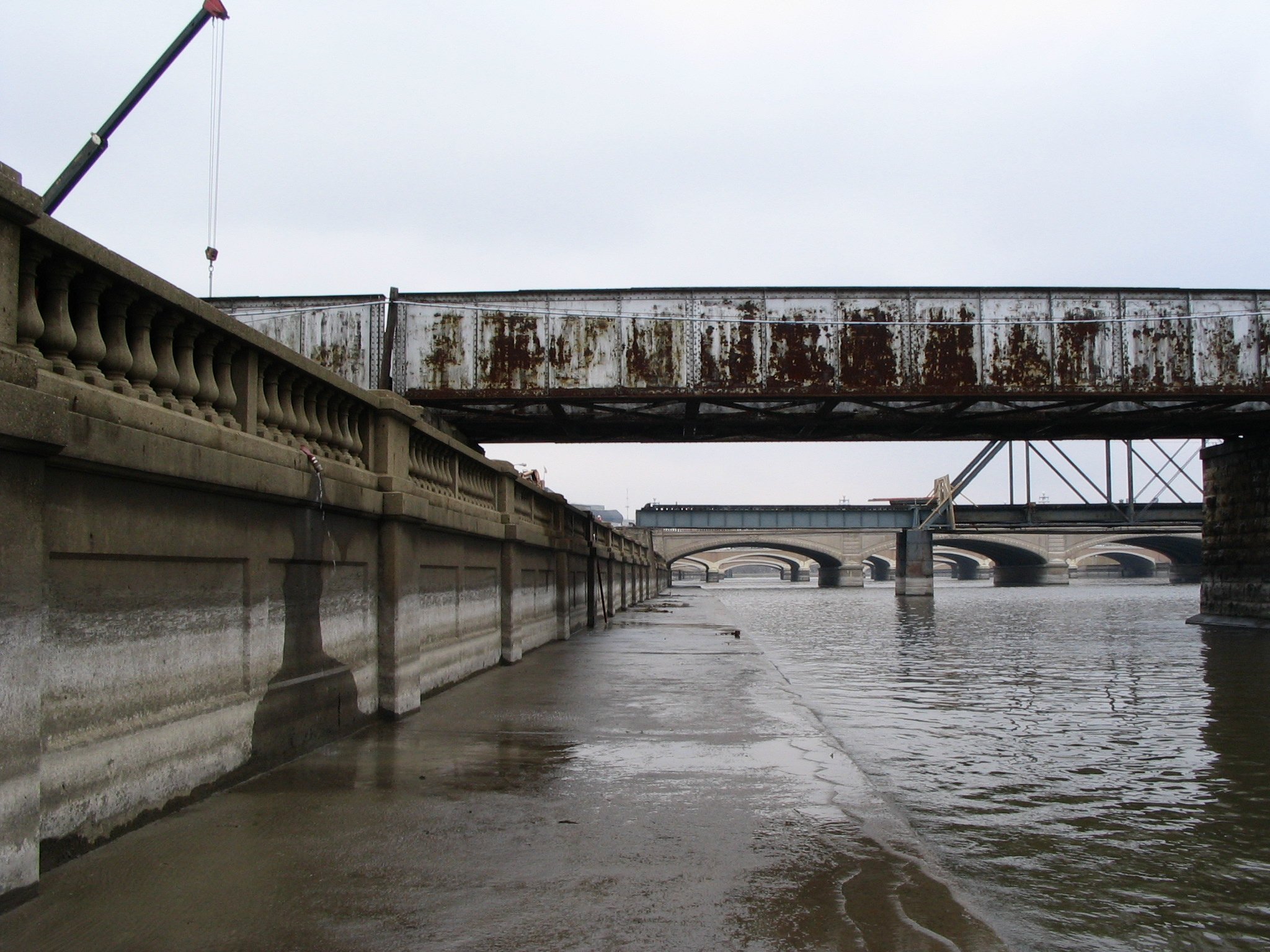 The bank of the Des Moines River in Des Moines, facing north from Vine Street, west side.